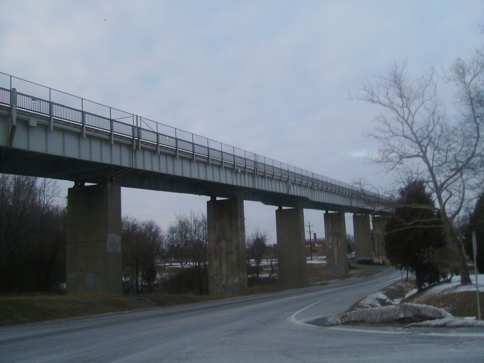 Maryland_Route_537C in Chesapeake City with MD 213 in view